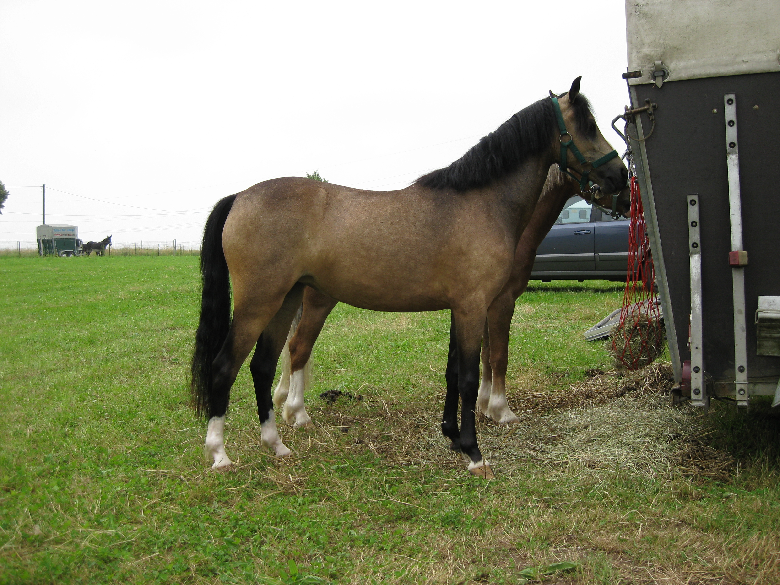 Two year old Welsh Pony of Section B Self made picture at Regionalschau IG-Welsh Regionalgruppe Rheinland